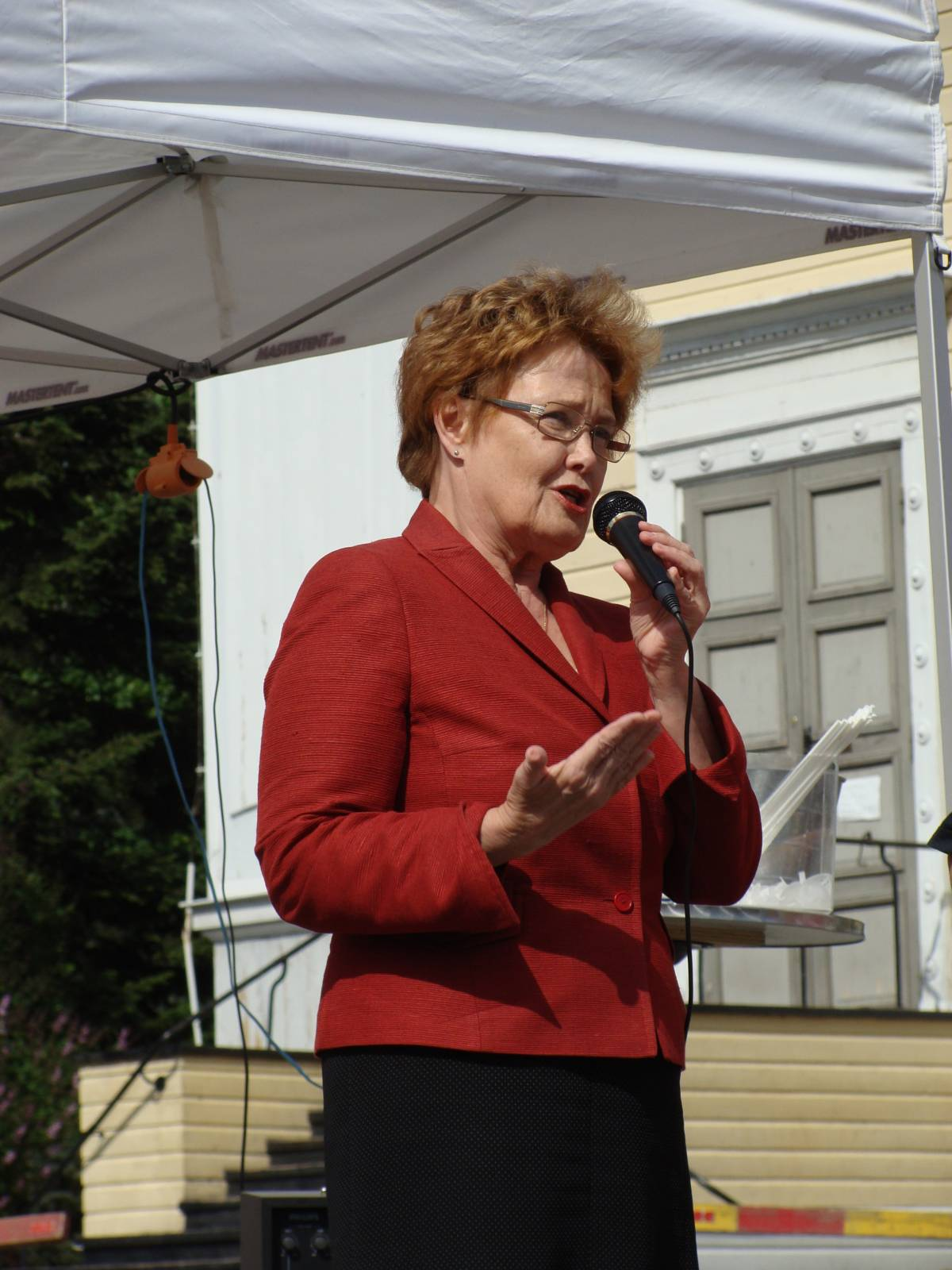 Finnish politician of National Coalition Party Eeva-Riitta Siitonen in Tampere